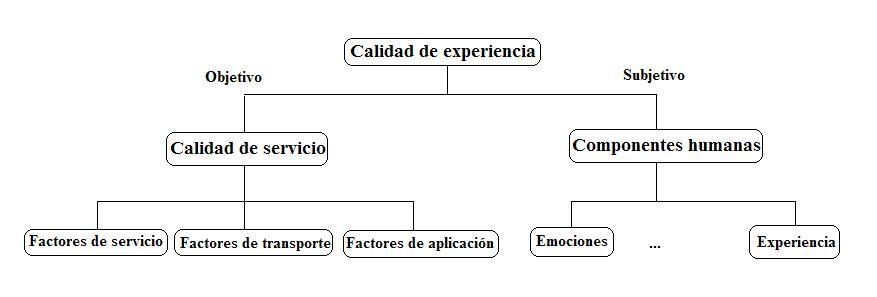 QoE factors